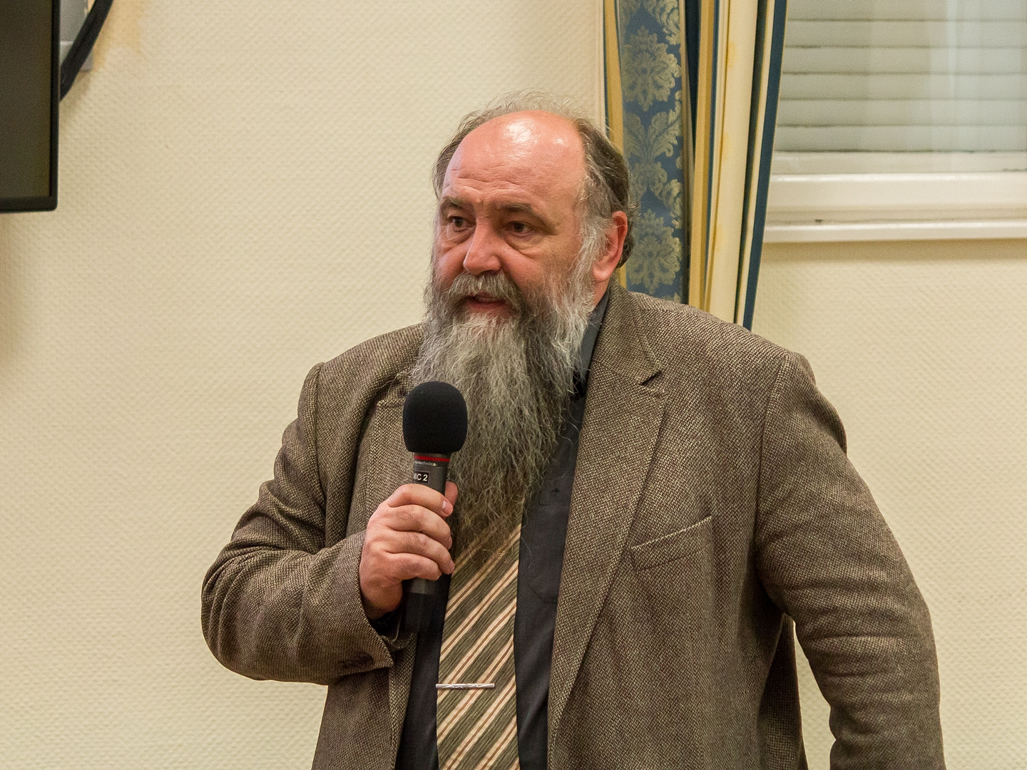 István Monok, Director General of the Library and Information Centre of the Hungarian Academy of Sciences at the Special Libraries Conference 2016 organised by the Hungarian Central Statistical Office Library